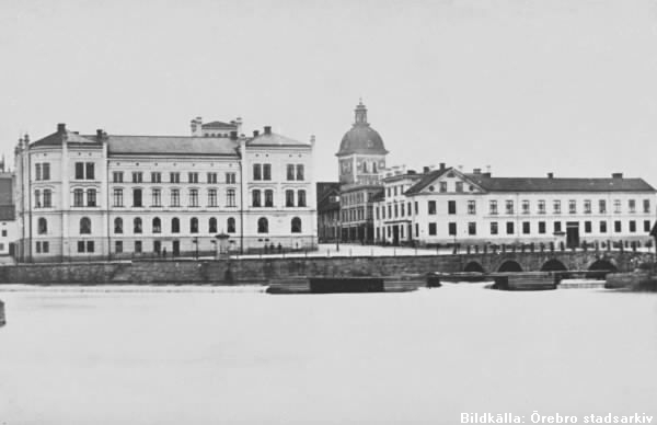 The hotel "Stora hotellet", the main bridge, and the "Phoenix house" in Örebro, Sweden